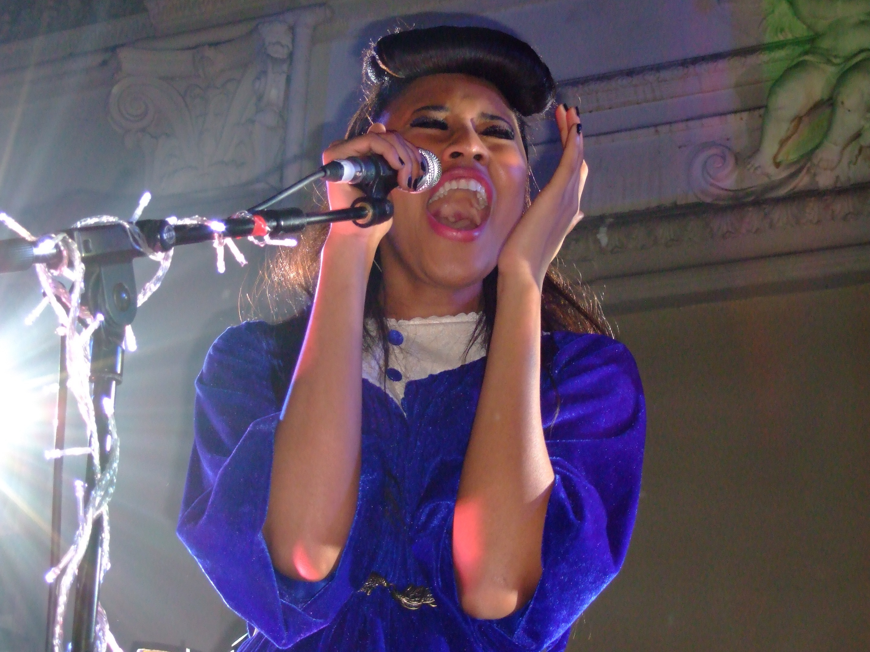 VV Brown performing at Bush Hall, London, on 25 March 2009